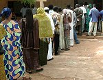 Voters line up to cast their ballots in the 28 April 2002 Malian general elections, Bamako, Mali.